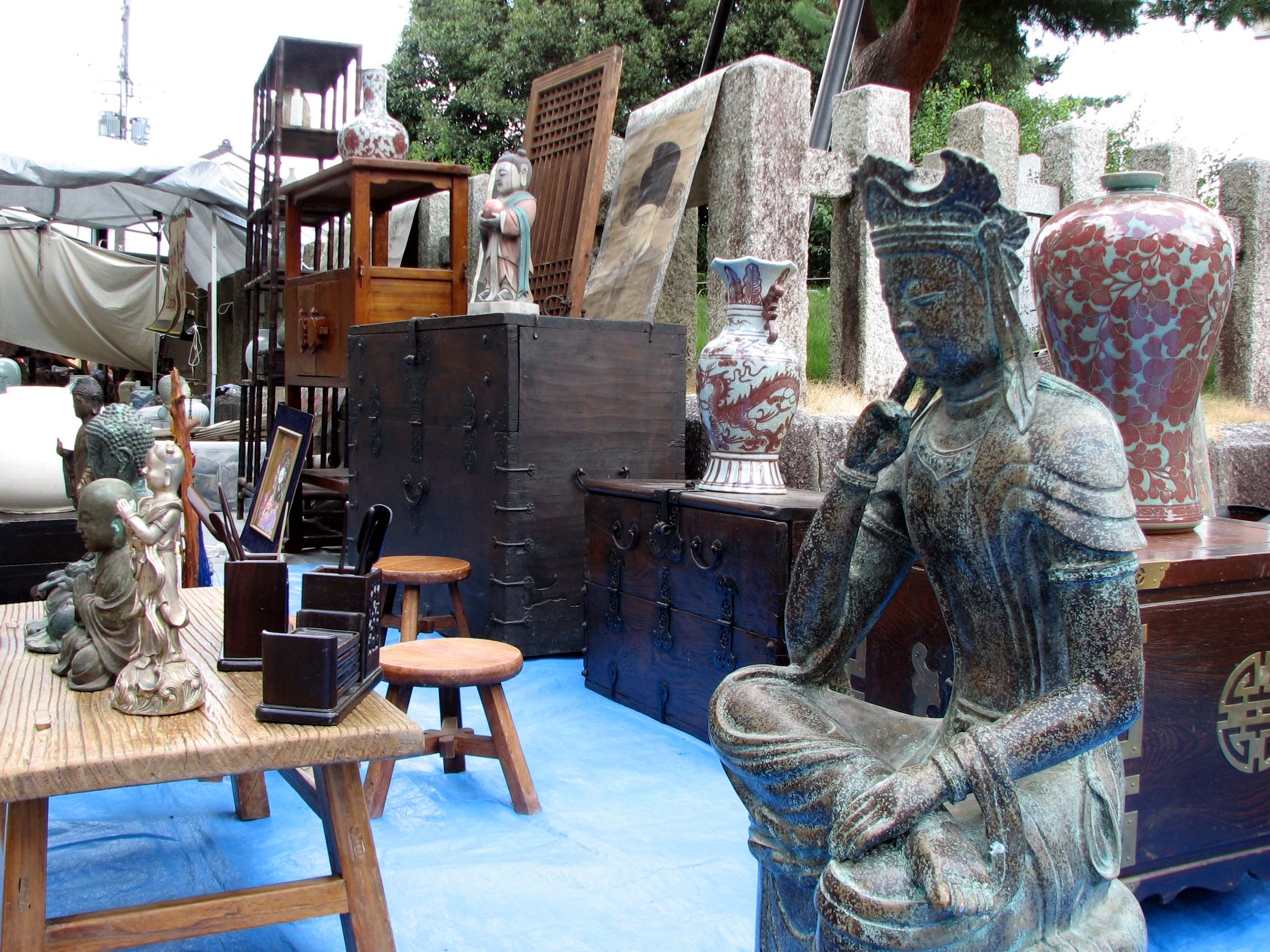 The famous flea market at the Kitano-tenmangu